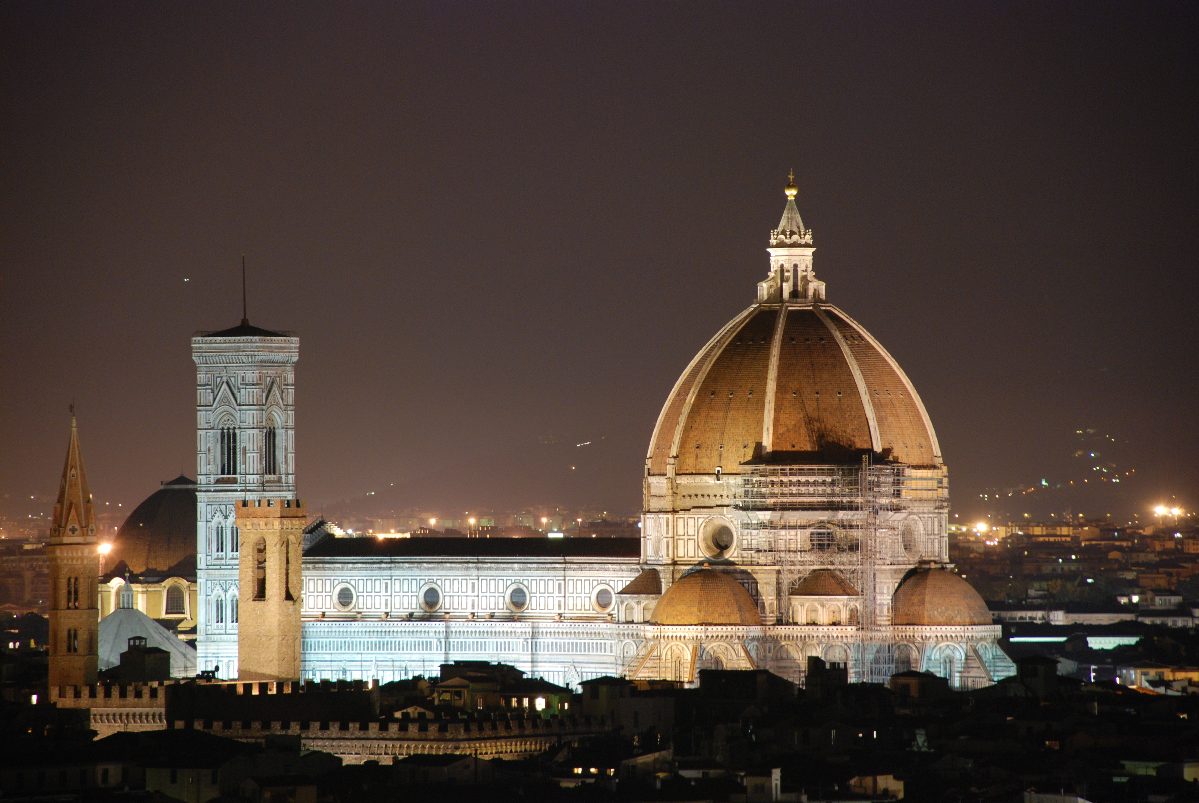 Il Duomo, in Florenece, Italy seen at night from Michelangelo's Piazza.